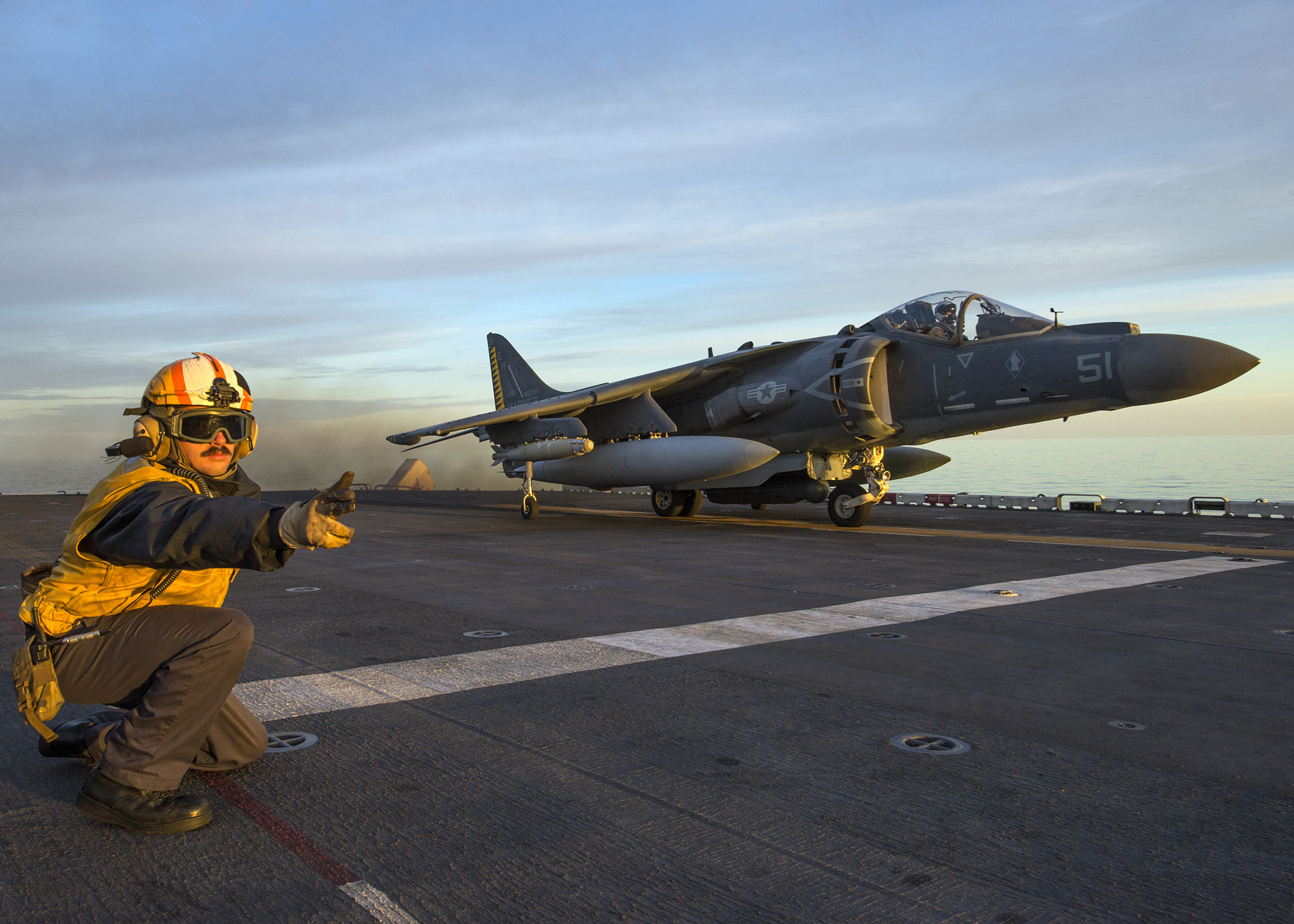 MEDITERRANEAN SEA (Dec. 5, 2016) An AV-8B Harrier, from the 22nd Marine Expeditionary Unit (MEU), takes off from the amphibious assault ship USS Wasp (LHD 1). The 22nd MEU, embarked on Wasp, is conducting precision air strikes in support of the Libyan Government aligned forces against Daesh targets in Sirte, Libya, as part of Operation Odyssey Lightning. (U.S. Navy photo by Petty Officer 2nd Class Nathan Wilkes/Released)161205-N-TO519-023 Join the conversation: navylive.dodlive.mil